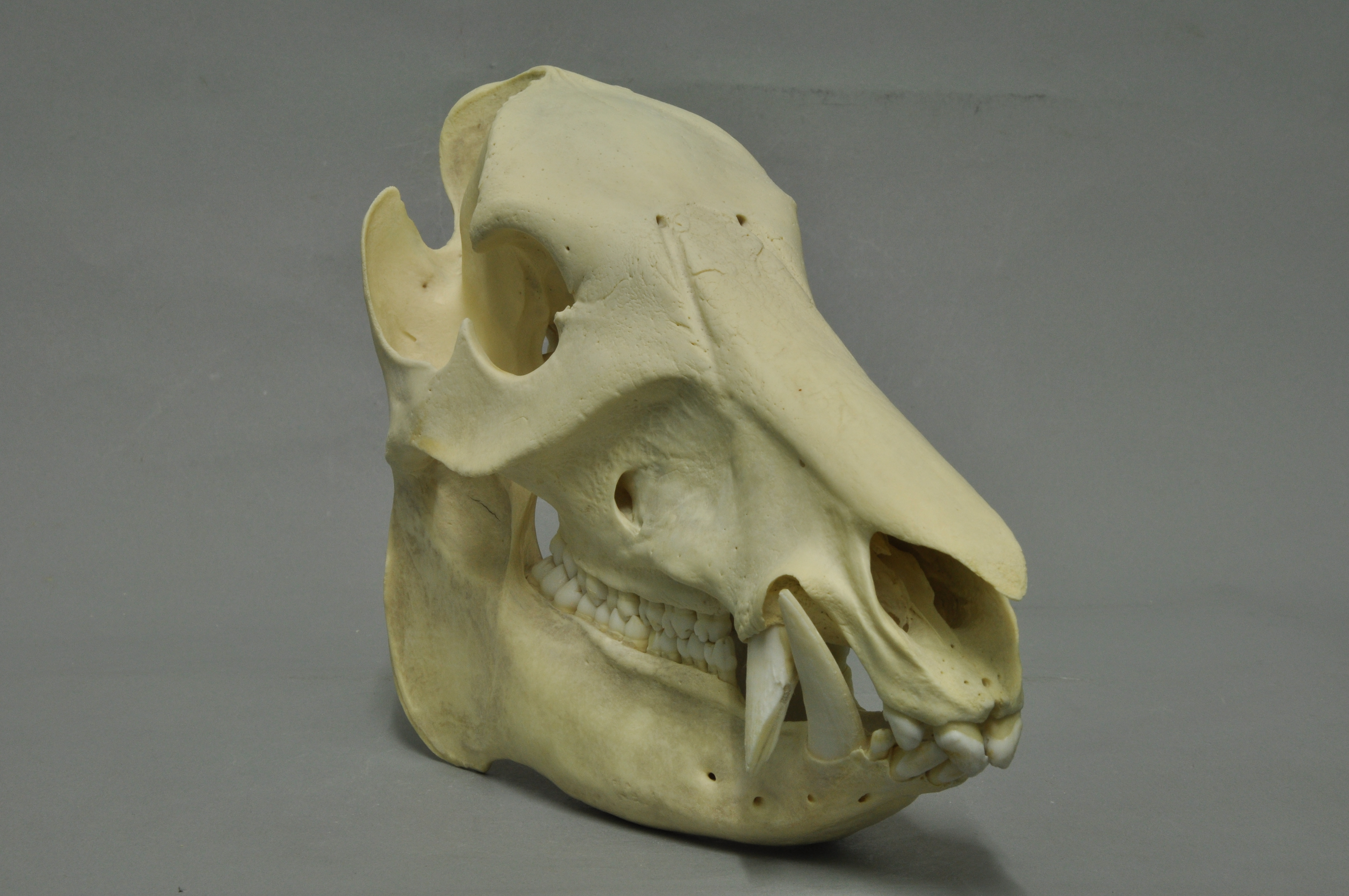 White-lipped peccaryTayassu pecari, skull, Coll. Museum Wiesbaden